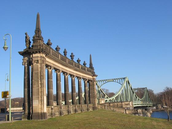 Berlin-Potsdam, Glienicke Bridge view from Potsdam